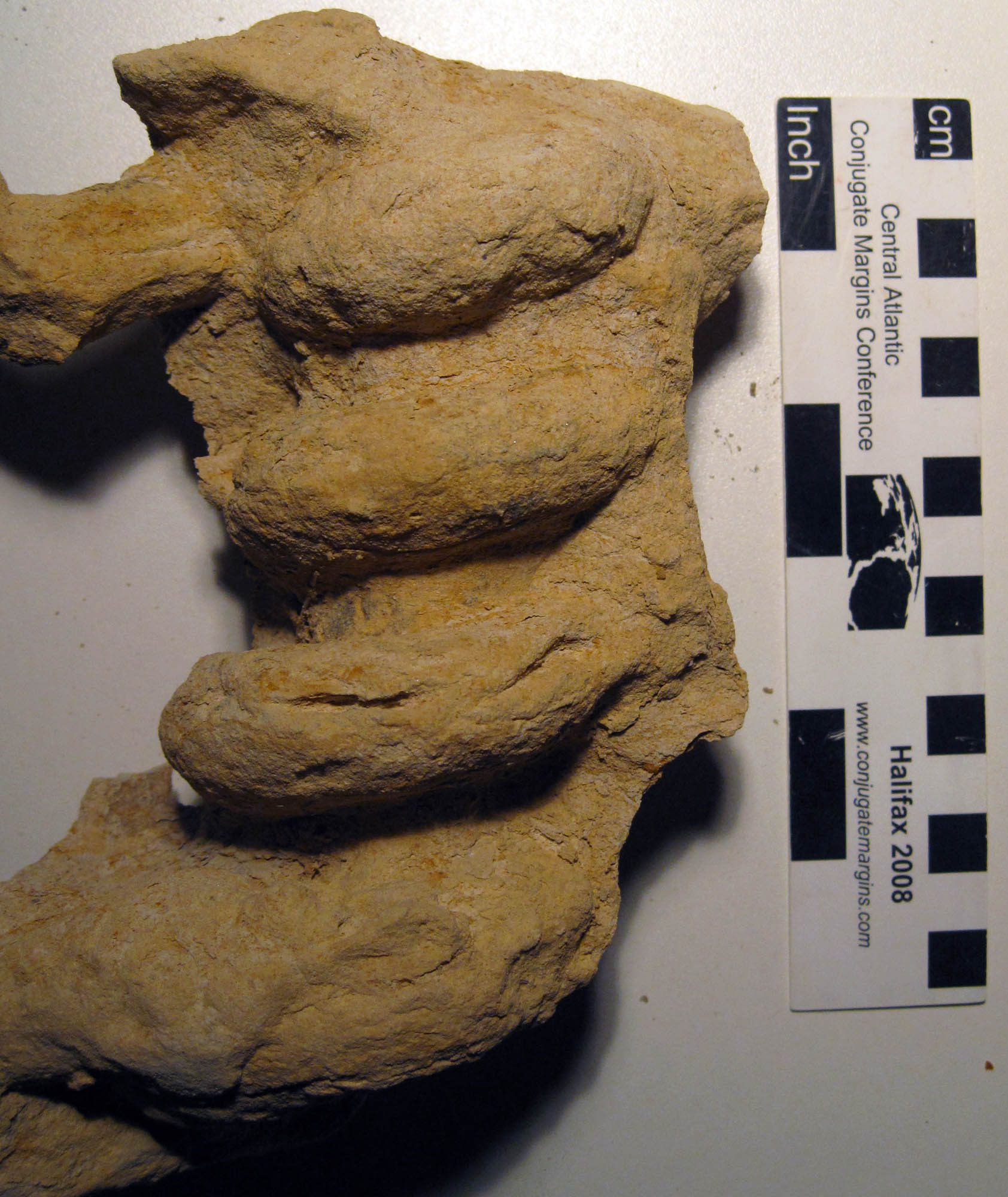 An image of a Pliocene Gyrolithes trace fossil